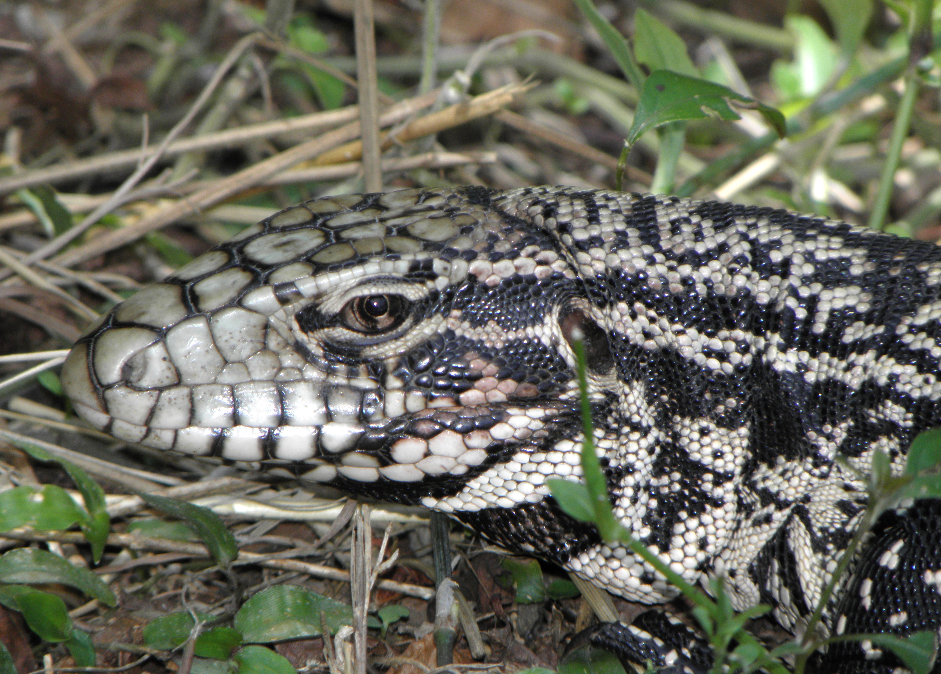 Argentine black and white tegu (Tupinambis merianae), in the Martin Garcia island, Argentina.Tambien en Federaciòn.E.R